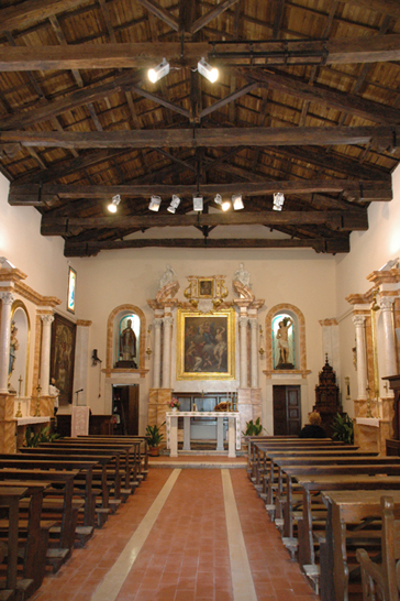 Interior of the Church of Saints Fabiano and Sebastian, Fiamognano, Italy